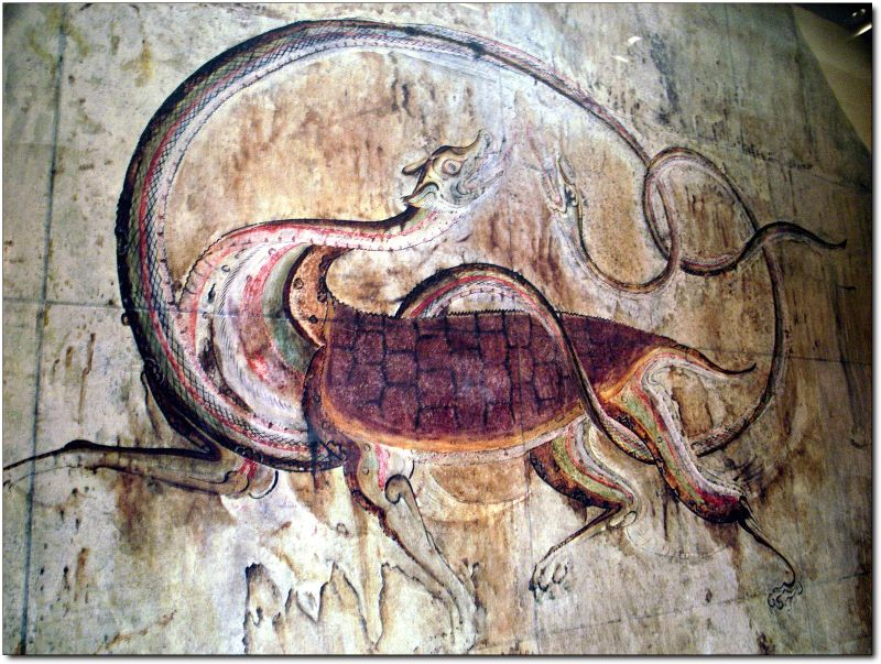 A replica of a mural of one of the directional dieties found in a Goguryeo Tomb at the National Museum of Korea.